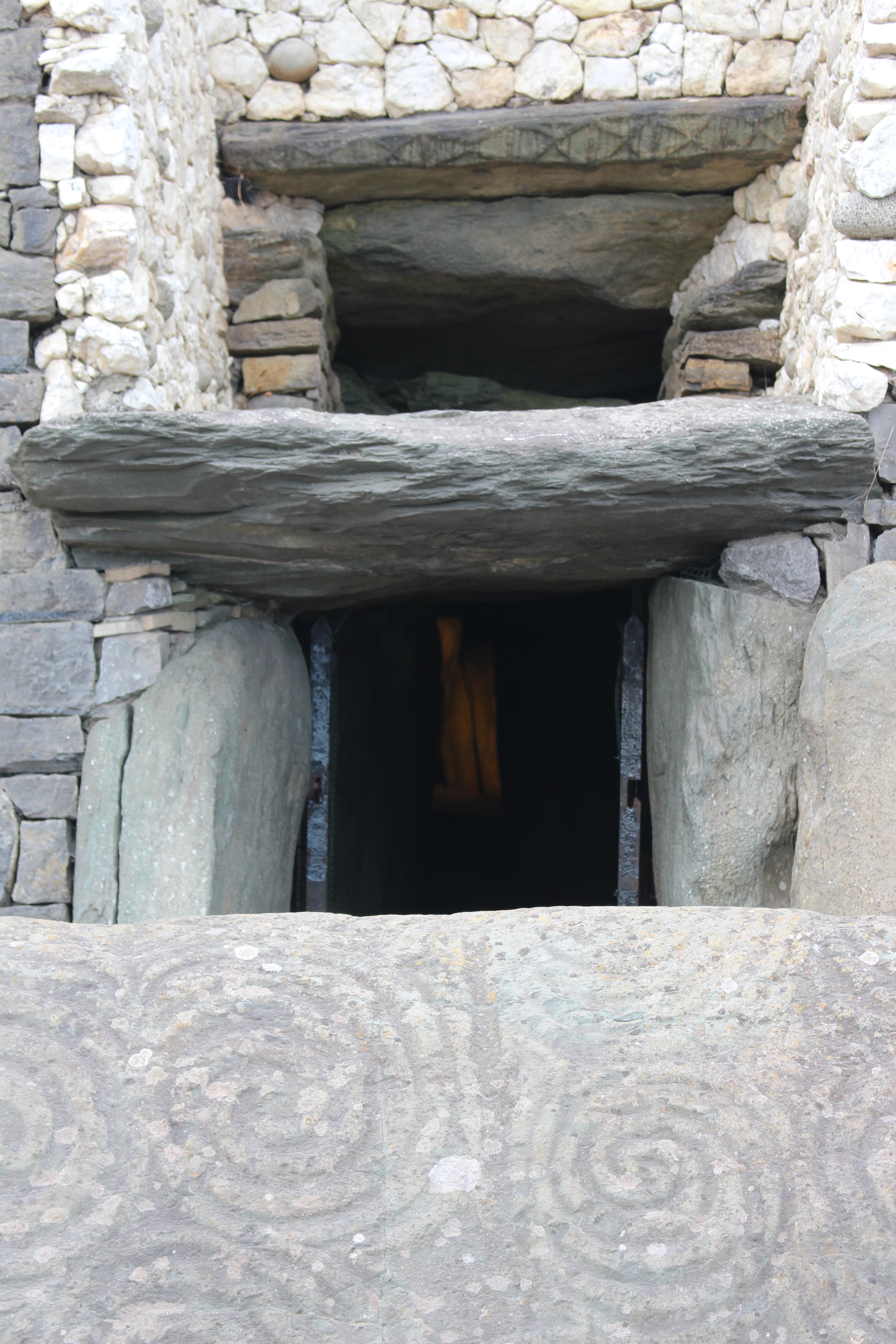 County Meath, Newgrange. Wikidata has entry Q339503 with data related to this item.